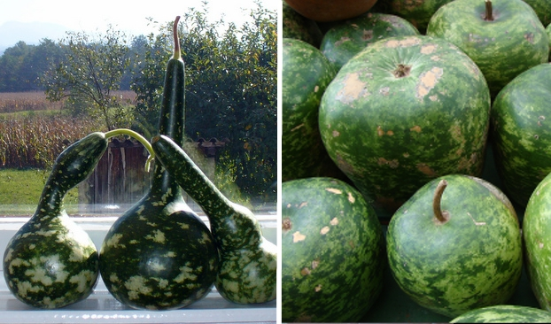 Lagenaria siceraria ornamental popular cultivars: 'Swan' (left) and 'Apple' (right)